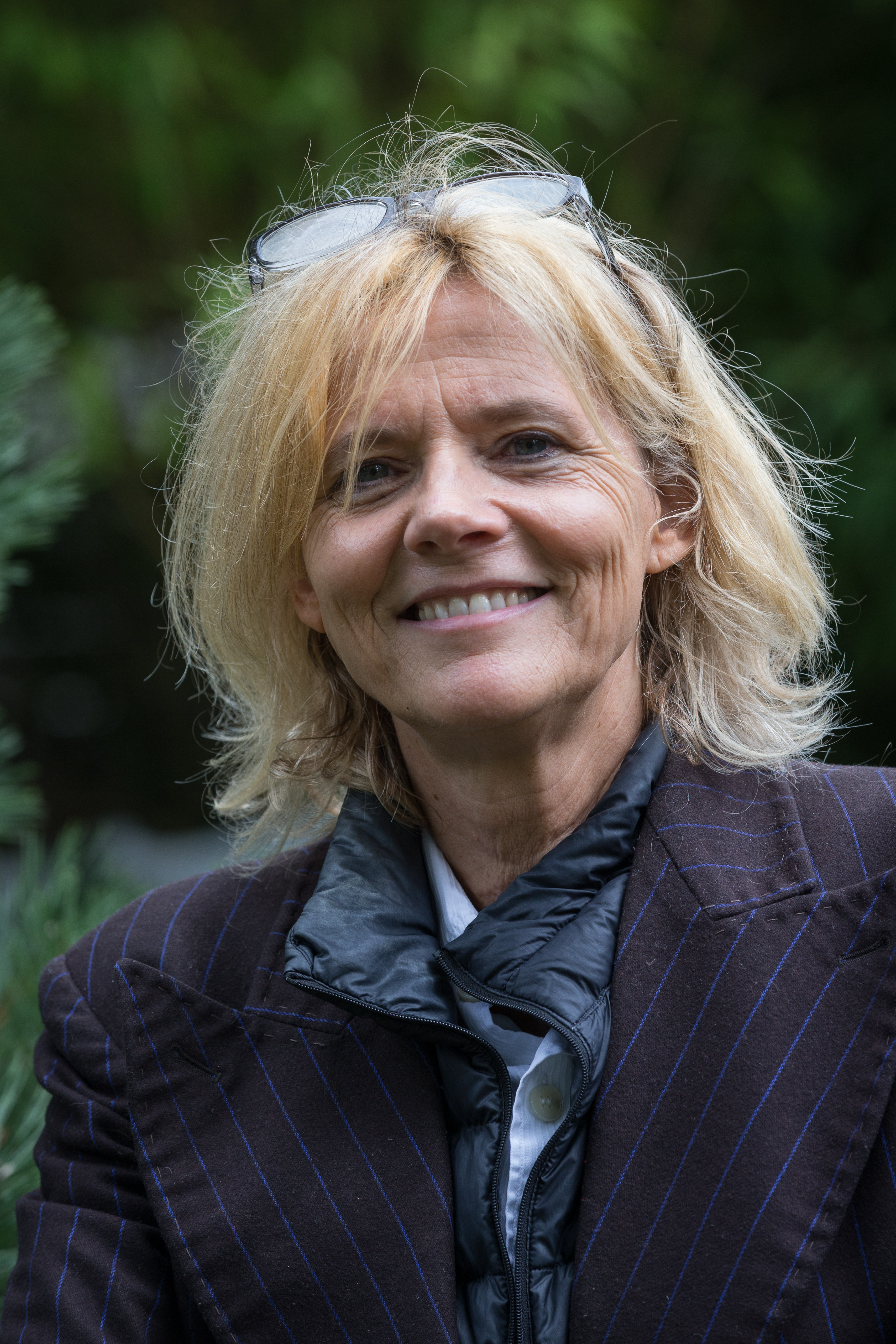 French journalist Florence Aubenas during International Festival of Geography 2015 in Saint-Dié-des-Vosges.